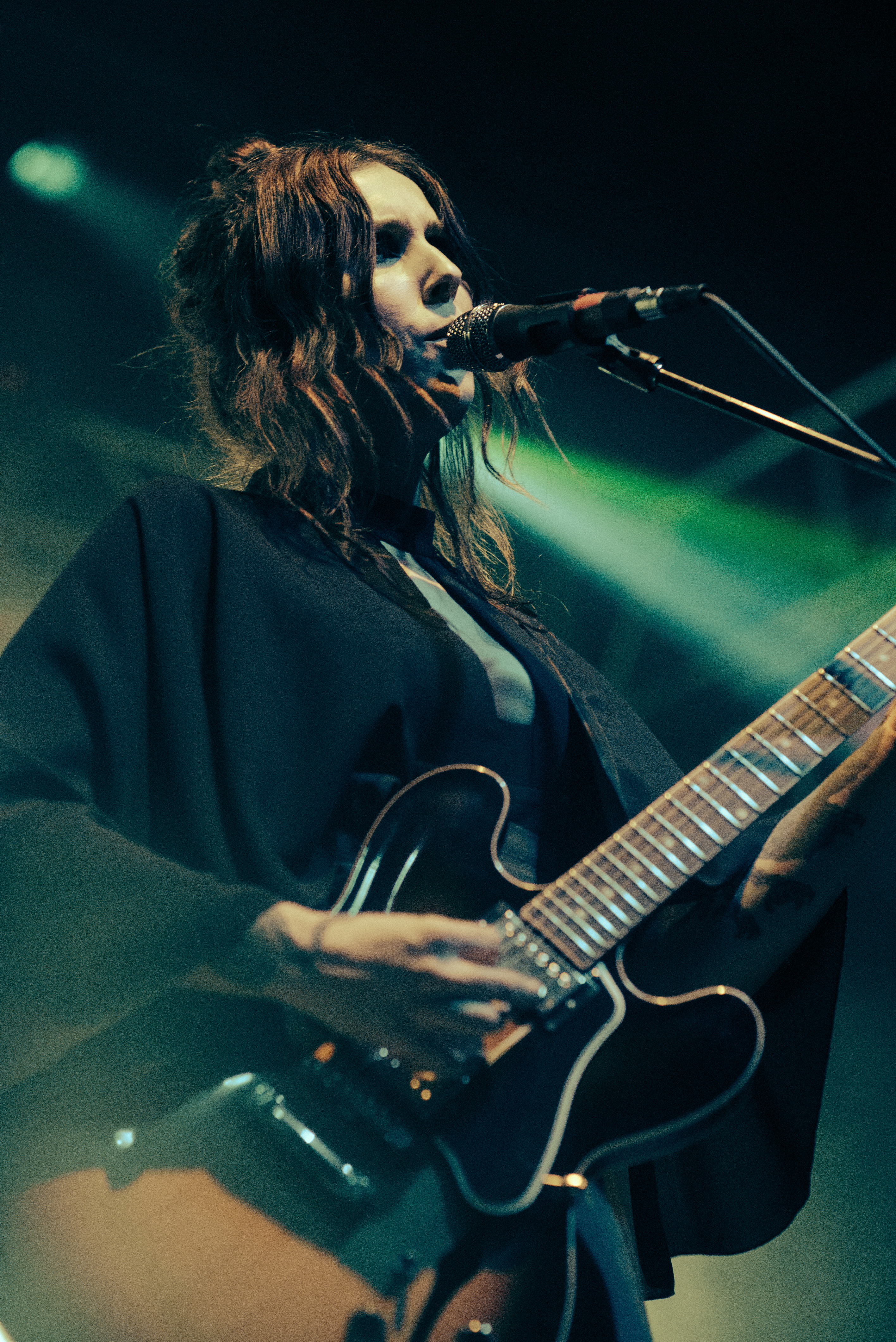 AdamWright-Treefort-2016-ChelseaWolfe-49